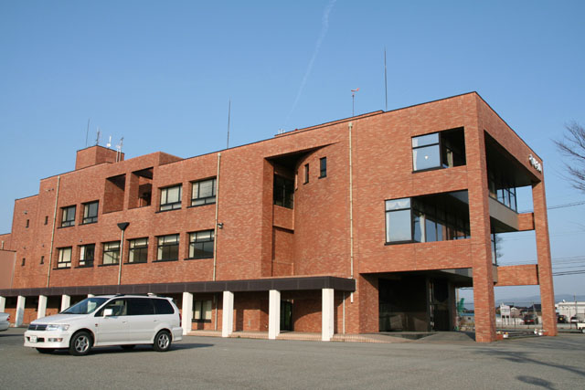 川北町役場 Contents 1 データ 2 関連画像 3 Licensing 4 Licensing 5 Original upload log データ 撮影者 Shift 撮影日 2007年03月 撮影地 石川県能美郡川北町 関連画像 なし Licensing Category:石川県の官公庁画像